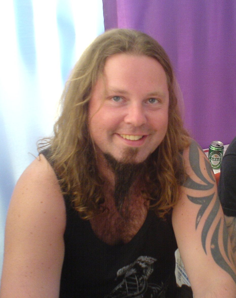 Peter Iwers, bass player in In Flames at a signing session at Hustsfred festival 2006.